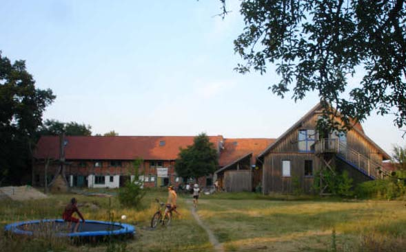 Ecovillage in Germany